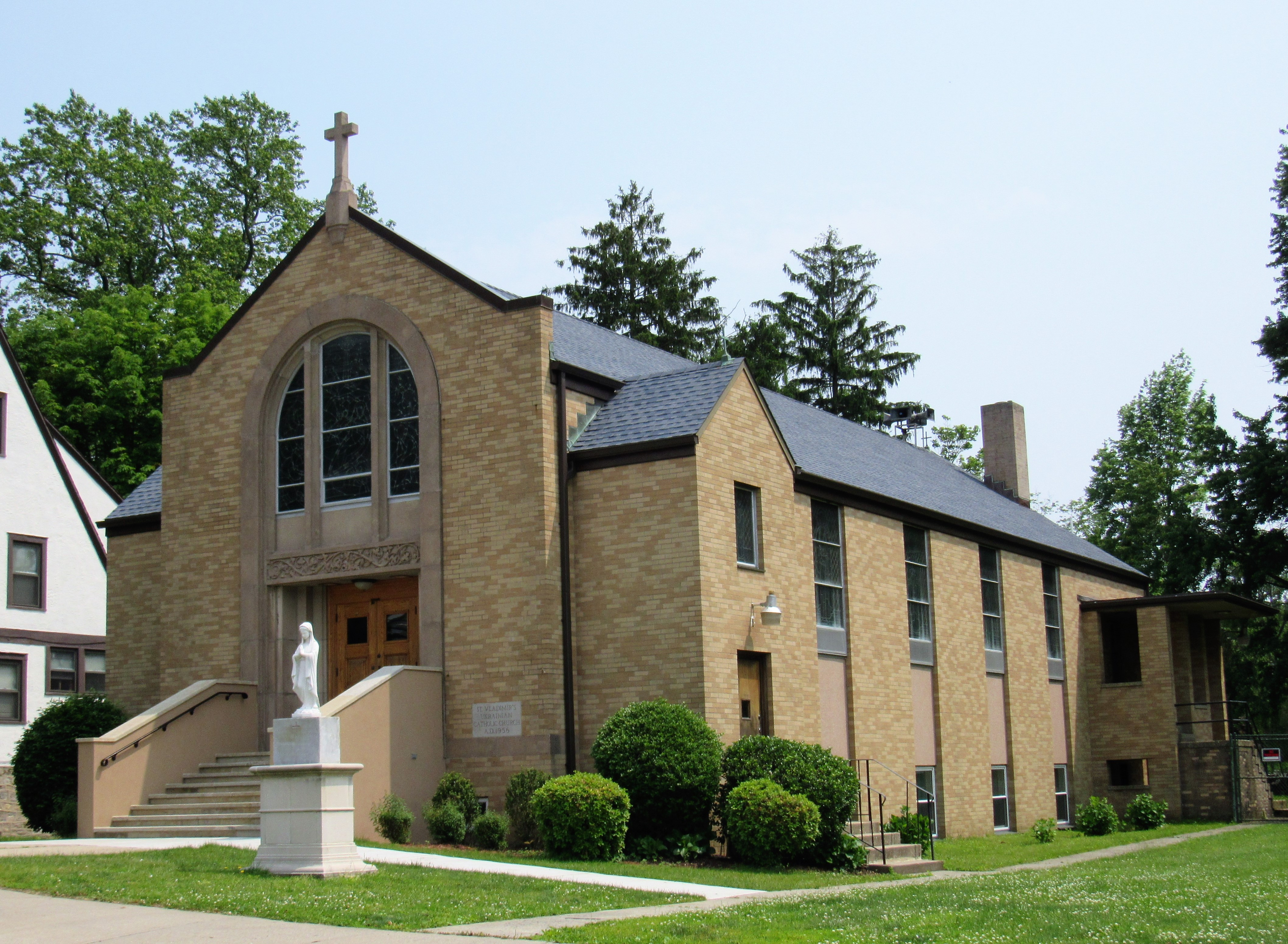 St. Vladimir's Cathedral (Ukranian Greek Catholic) in Stamford, Connecticut.